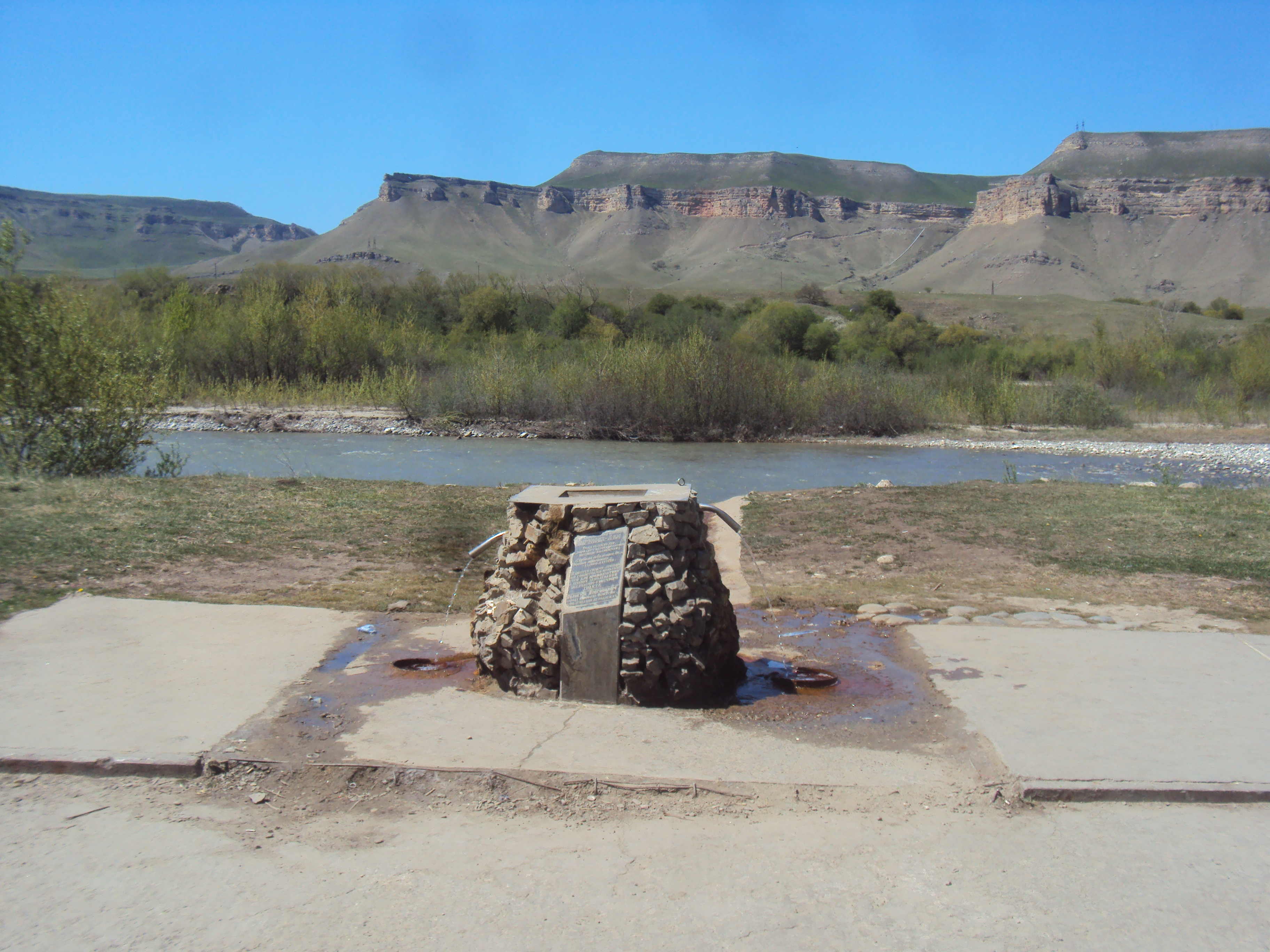 mineral spring Krasnogorskij